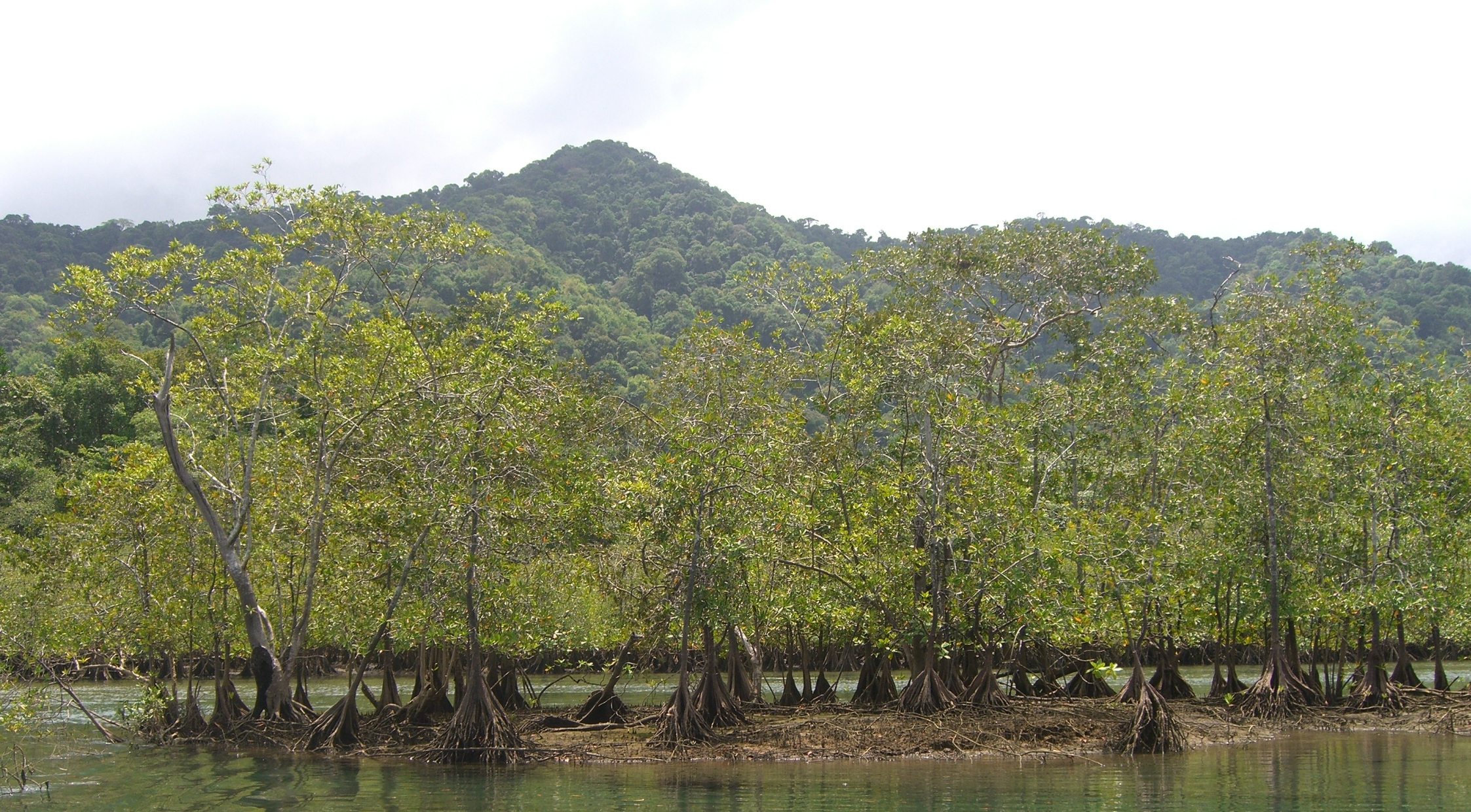 Description: Mangroves in the Parque Nacional Natural Utría